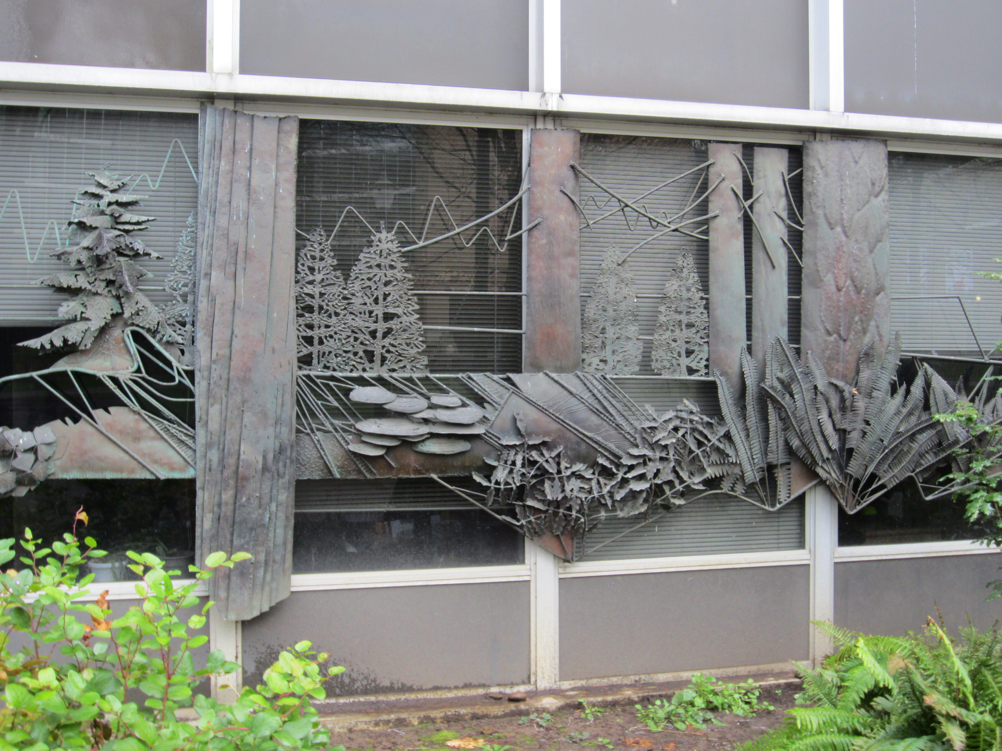 Neuberger Hall, Portland State University (2014)